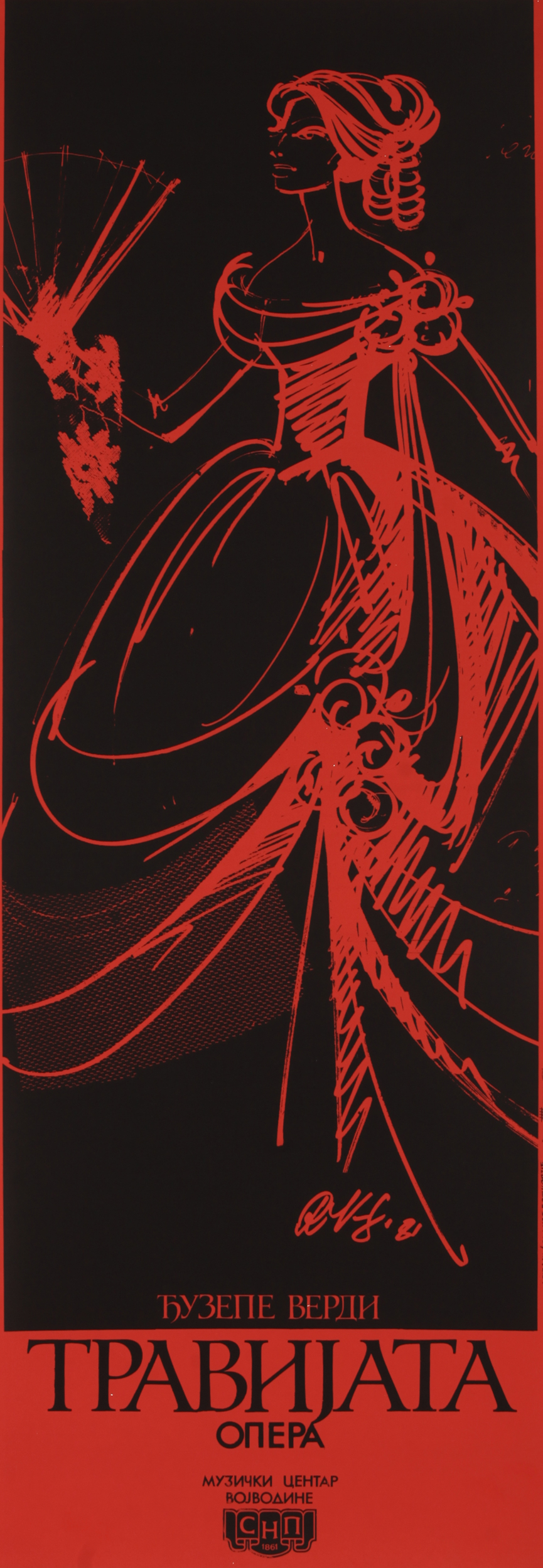 La traviata, SNT, Novi Sad, 1981; Theater Poster Image of the Serbian National Theatre Srpski (latinica): Travijata, SNP, Novi Sad, 1981; Pozorišni plakat Srpskog narodnog pozorišta Српски (ћирилица): Травијата, СНП, Нови Сад, 1981; Позоришни плакат Српског народног позоришта